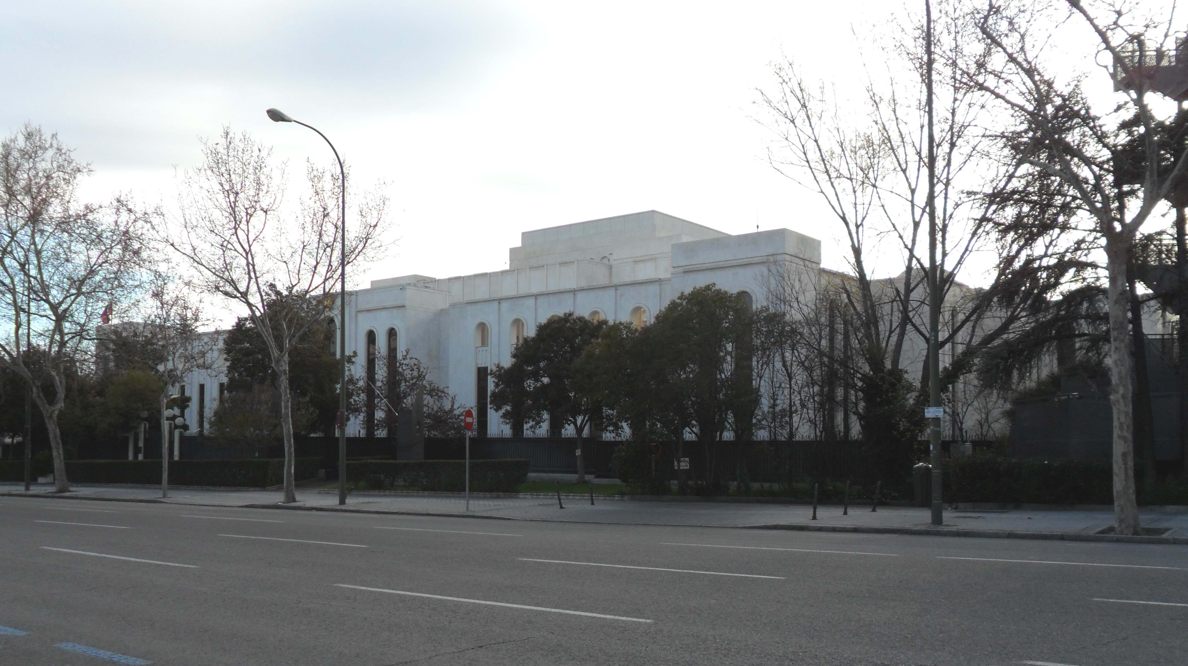 Façade of the Russian Embassy in Madrid (Spain).